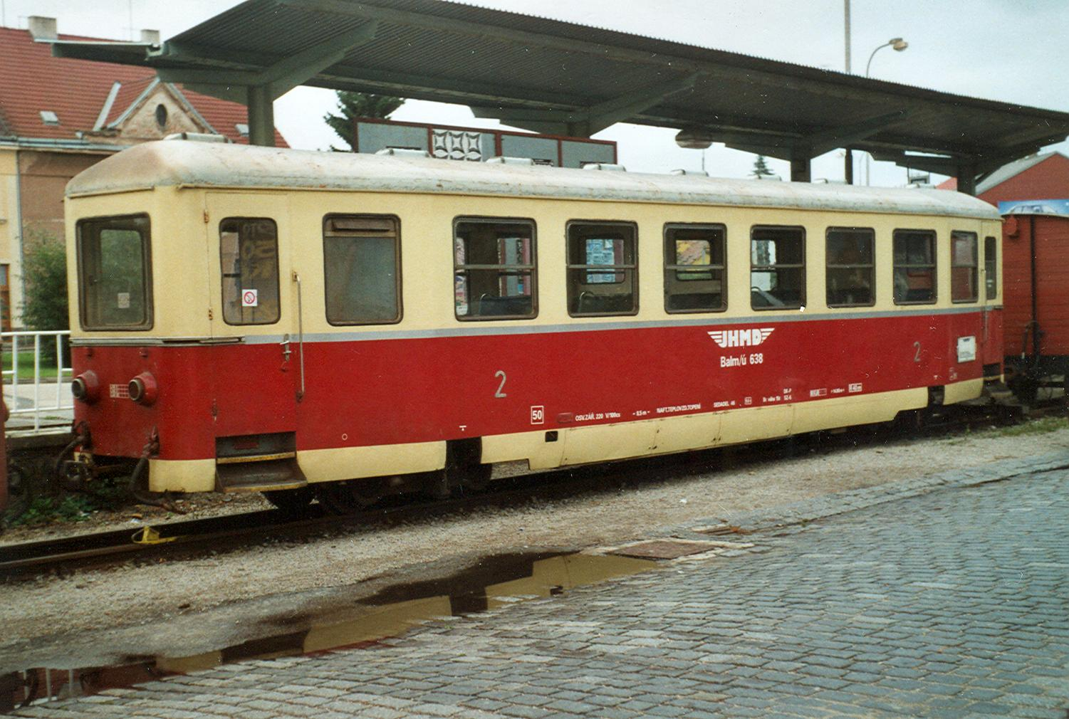 Balm/u class carriage in Jindřichův Hradec.